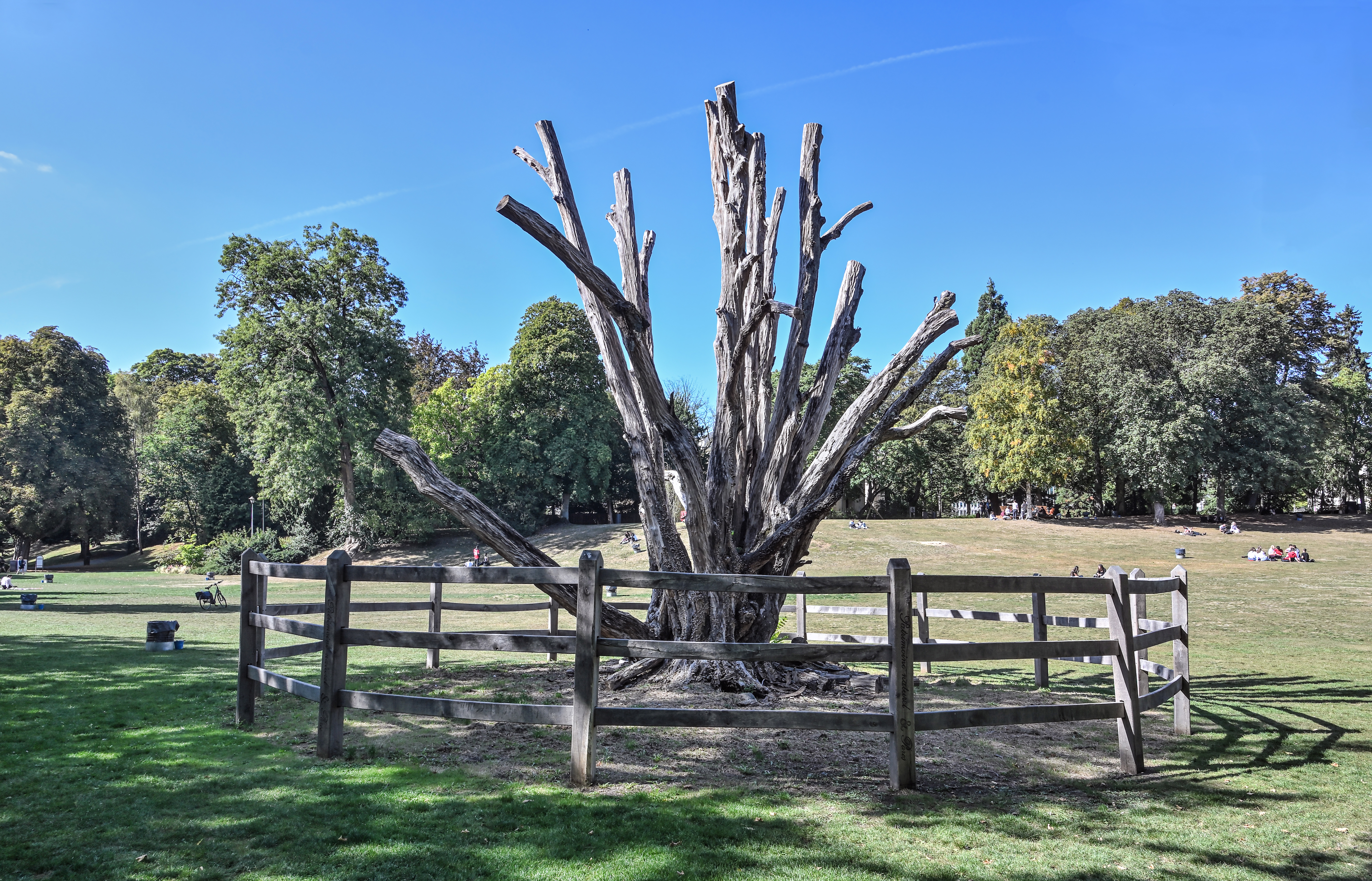 Luxembourg City: Kinnekswiss (royal field) in the public garden with dead common hornbeam (Carpinus betulus) in 2019.